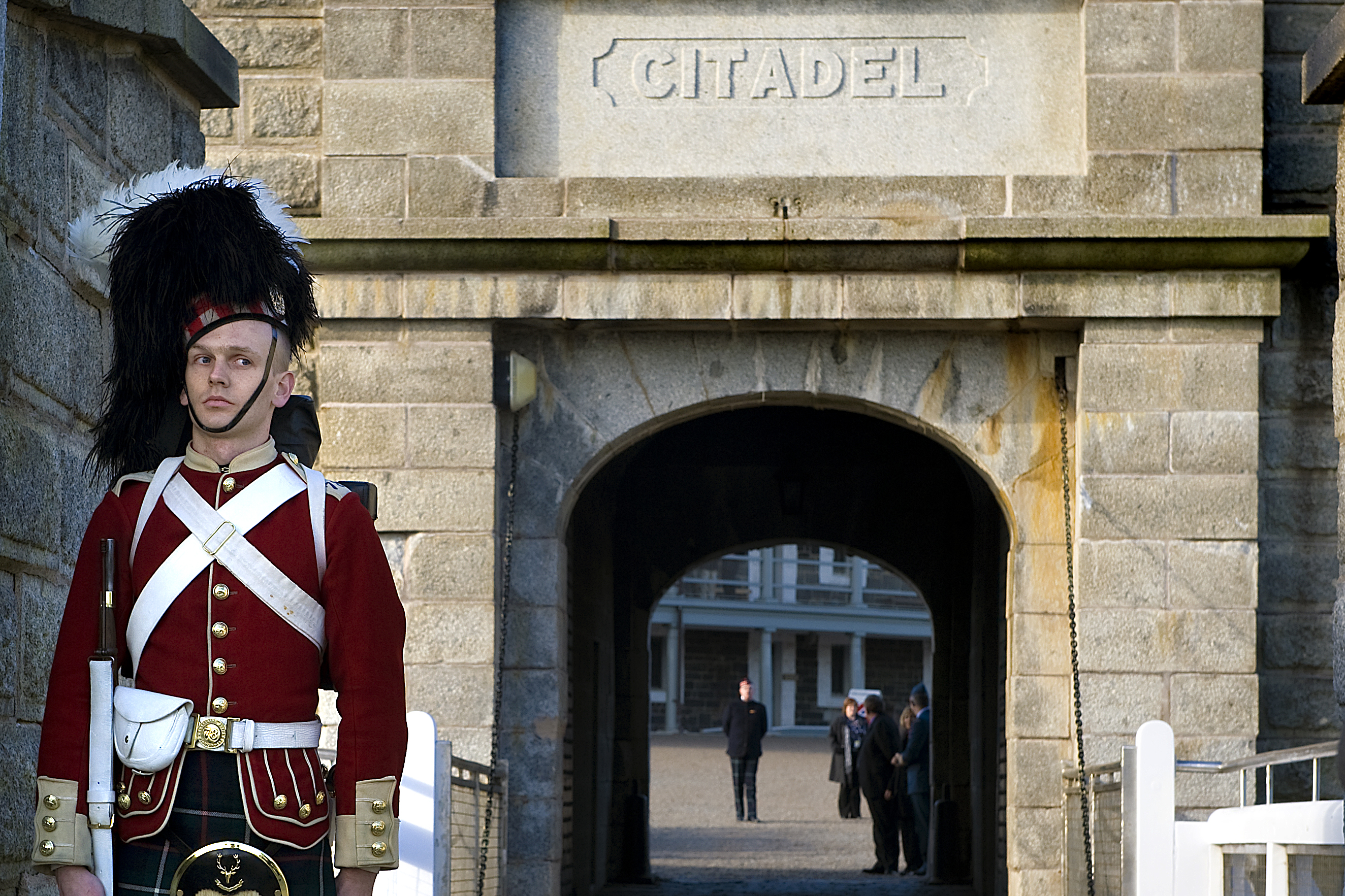 A member of the 78th Highlanders stands at the entrance of the Citadel in Halifax, Nova Scotia.